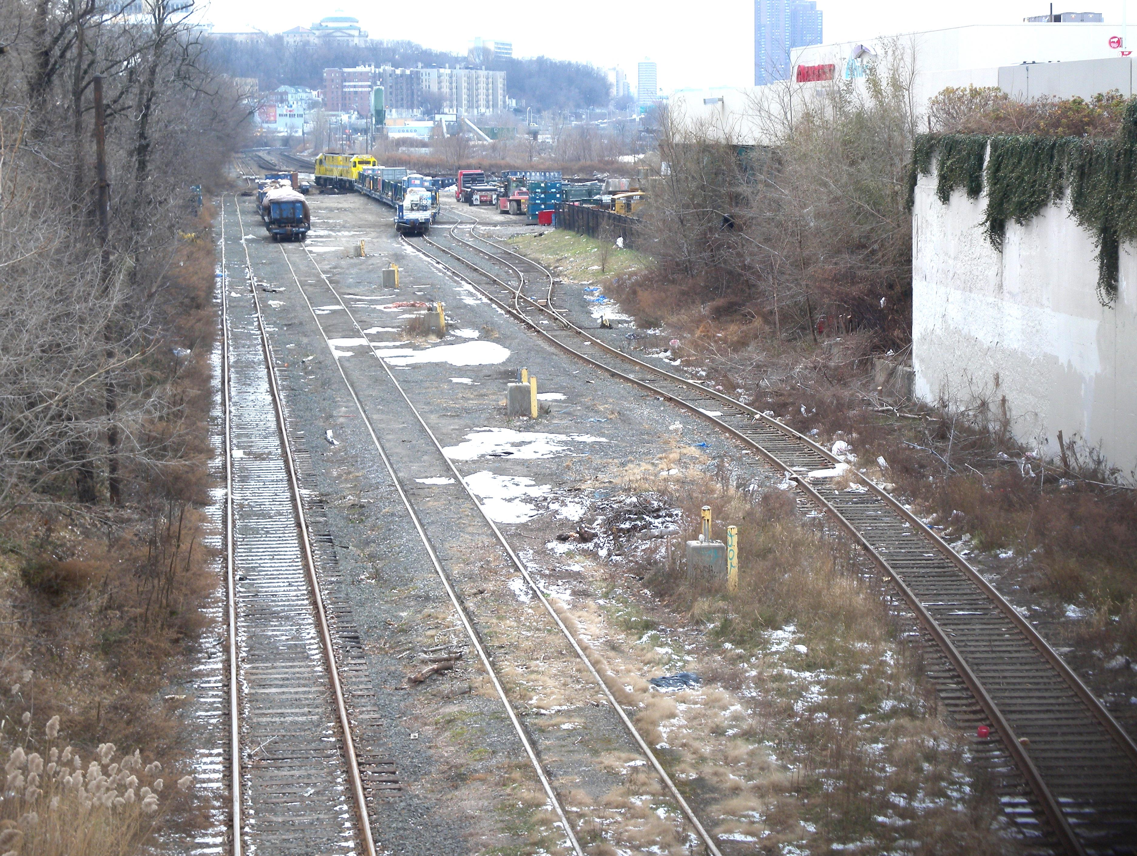 Looking south at stub of Putnam Line, still working for storage, on a cloudy midday.